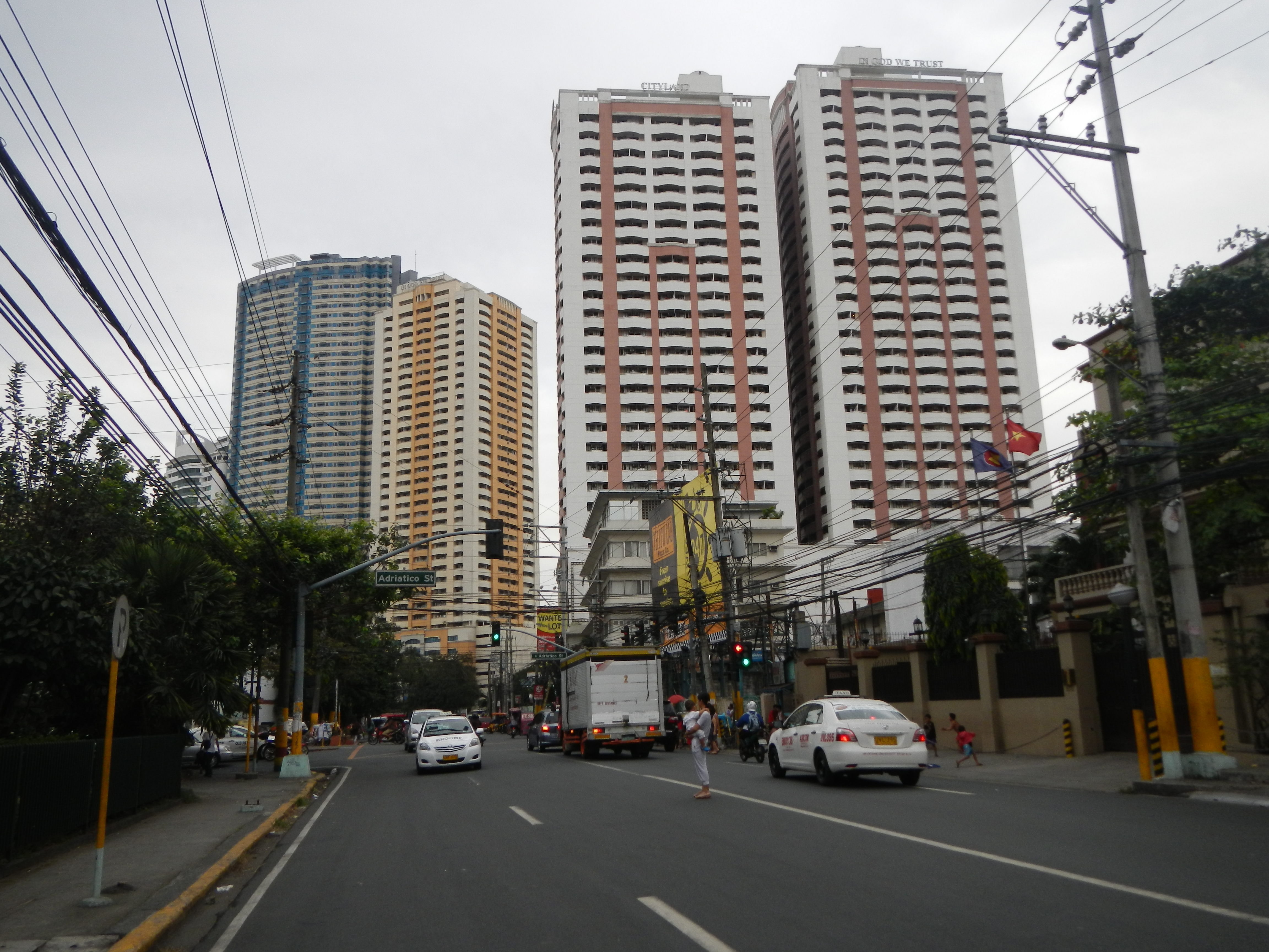 Upload Wizard photos of - the a) Fo Guang Shan Mabuhay Temple (Malate) - IBPS Manila [1] IBPS Manila - The International Buddhist Progress Society of Manila, Philippines also known as Fo Guang Shan Manila propagated by Venerable Master Hsing Yun, spiritual founder and teacher of the order [2] - Humanistic Buddhism [3] [4] List of religious buildings in Metro Manila[5] - located at 656 Pablo Ocampo Street[6] Malate, Manila, [7]Philippines b) List of hotels in Metro Manila[8] Century Park Hotel (Manila) Pablo Ocampo Street [9].